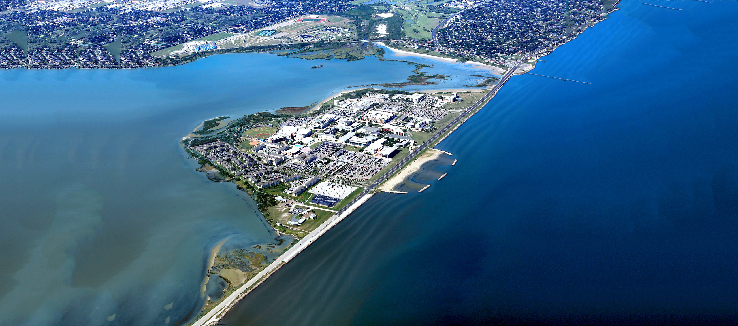 More correctly classed as a peninsula, Ward Island is connected to the Corpus Christi shoreline by about 1,500 ft (460 m) of wetland. It is roughly triangular in shape, some 5,000 ft (1,500 m) long across the front and 2,500 ft (760 m) average depth, giving approximately 240 acres (0.97 km²) in useful size, or 259 acres (1.04 km²) counting the wetland. The soil is clay, formed by erosion, contrasted to sand islands formed by deposition. Its maximum elevation is only about 15 ft (4.6 m) above the sea-level of Corpus Christi Bay. A causeway (Ocean Drive) connects the island to the Corpus Christi shore, then extends beyond the island to the opposite side of Oso Bay and the Naval Air Station Corpus Christi at Flour Bluff about 1.0 mi (1.6 km) away.